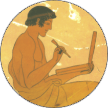 Greek writing from ancient greek red figure pottery